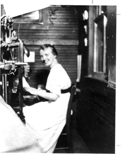 Citation: H. S. Bender Papers. Biography Project Photographs. HM4-083. Box 2 Folder 1 Photo 48. Mennonite Church USA Archives - Goshen. Goshen, Indiana.